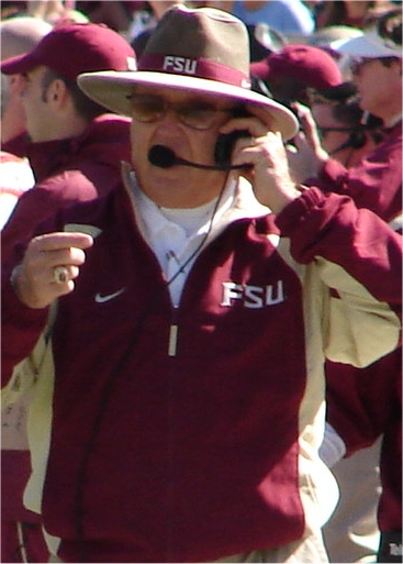 Bobby Bowden, head coach of Florida State University on the sidelines of the football game against Virginia on November 4, 2006